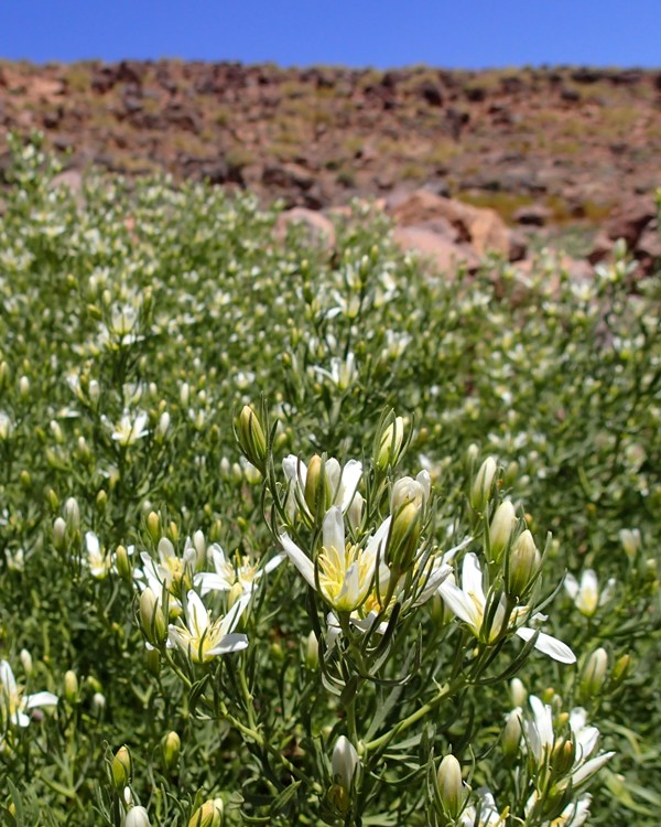 It is widely used for protection against Djinn in Morocco In Turkey, dried capsules from this plant are strung and hung in homes or vehicles to protect against "the evil eye"